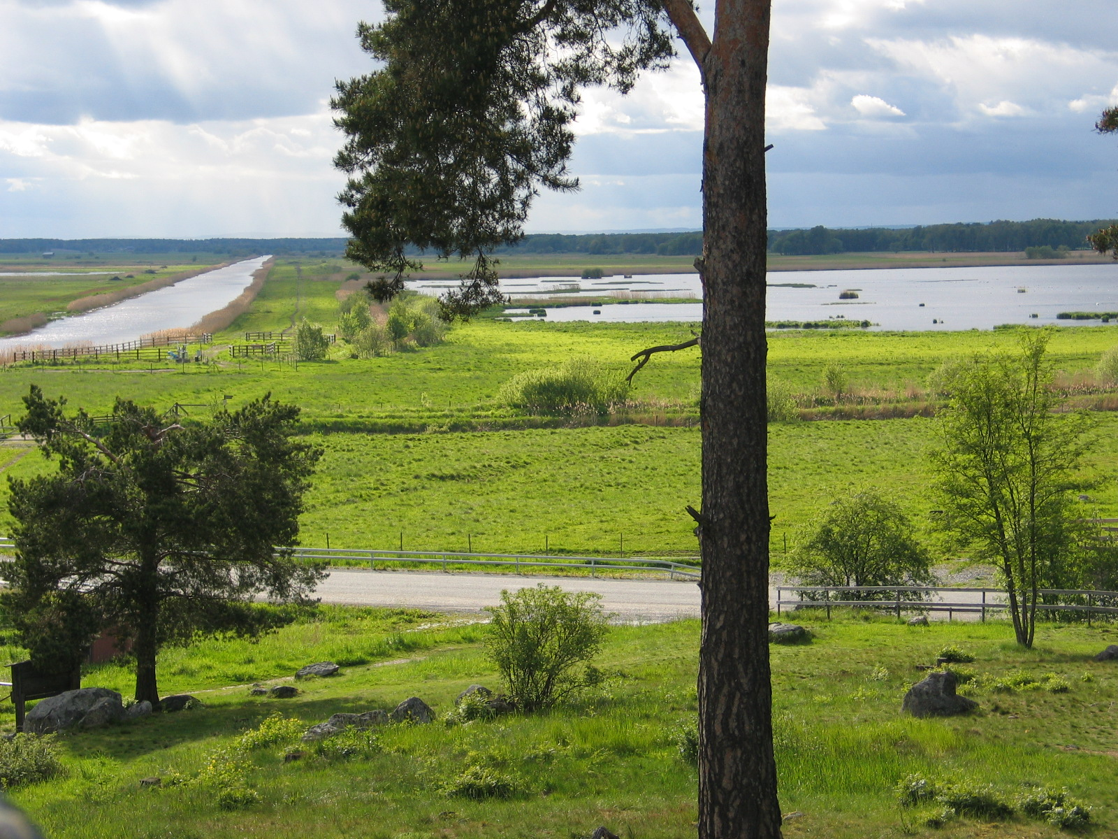 Kvismare canal, Närke, Sweden